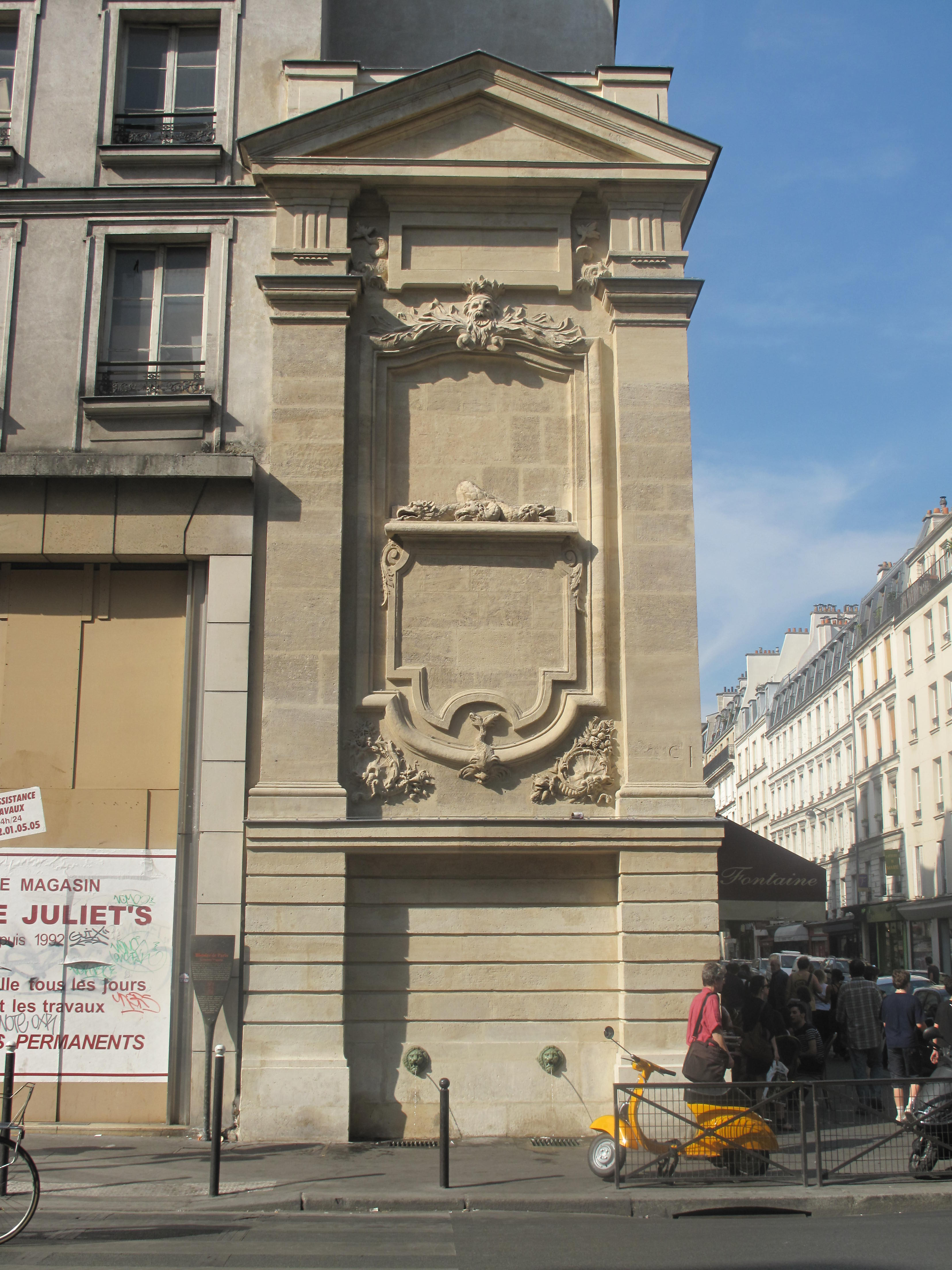 Overview of the Trogneux fountain, rue de faubourg Saint-Antoine, Paris 11th arr., France)